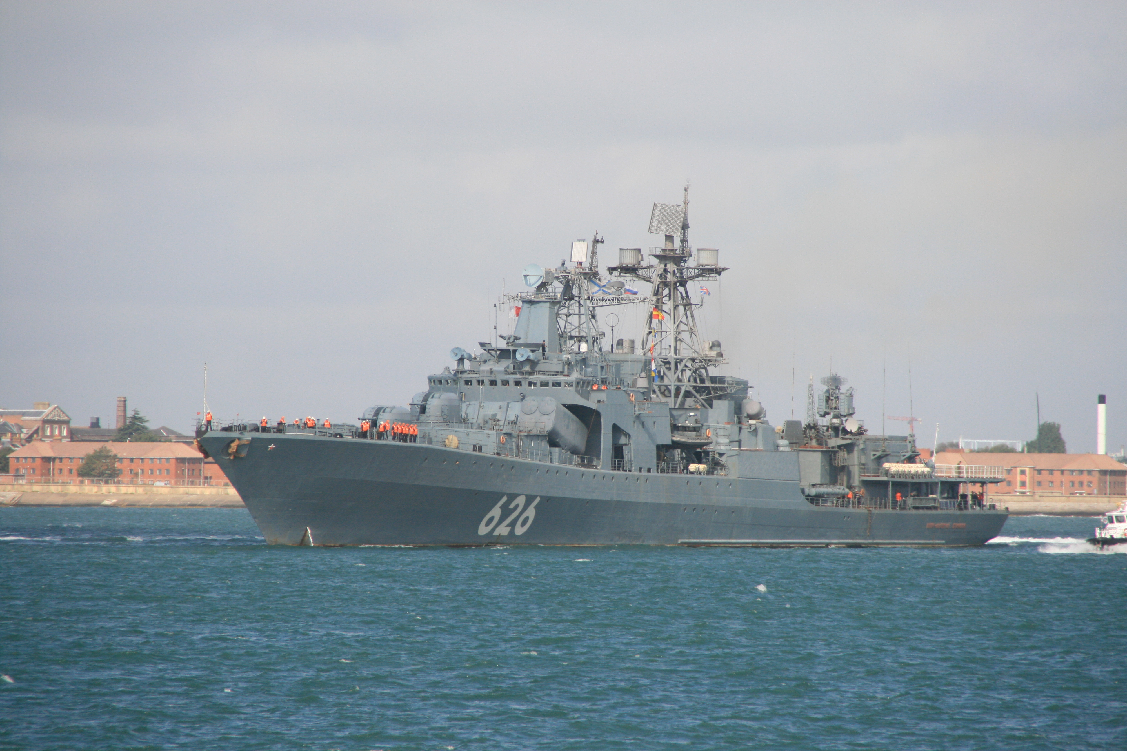 A Udaloy class destroyer of the Russian Federation Navy RFS Vitse Admiral Kulakov outward bound from Portsmouth Naval Base, UK, after a five-day visit, 28 August 2012. Vitse Admiral Kulakov has recently been deployed in the Indian Ocean on anti-piracy duty, and in late July 2012, led a flotilla of the Russian Northern Fleet to the Eastern Mediterranean to conduct naval drills, close to the Syrian coast. Seen in the background off the vessel's bow, is the former Royal Naval Hospital, Haslar, sadly, now closed. Image uploaded by me User:George.Hutchinson from a photograph taken by and supplied by Brian Burnell. Wikipedia editors are reminded that the copyright remains with the photographer, and that the terms of the Creative Commons licence; that allow editors to reuse this image apply to Wikipedia editors also, as they do to other re-users of this image. Breaches of the licence terms are not only unlawful, but are also antisocial, in that breaches discourage photographers from making their images freely available to everyone without payment. Wikipedia re-users are also reminded of the license terms that derivatives of this image should not imply that the adaptation is endorsed or approved by the author or copyright holder. Neither should derivatives be presented as the creation of the author or copyright holder, while clearly stating that the adaptation is a derivative of the original. Attribution online should be in this format Brian Burnell. On the printed page, a simpler form is acceptable - example: "Image: Brian Burnell". Non-Wikipedia users are requested to advise Brian Burnell of its use other than on Wikipedia.